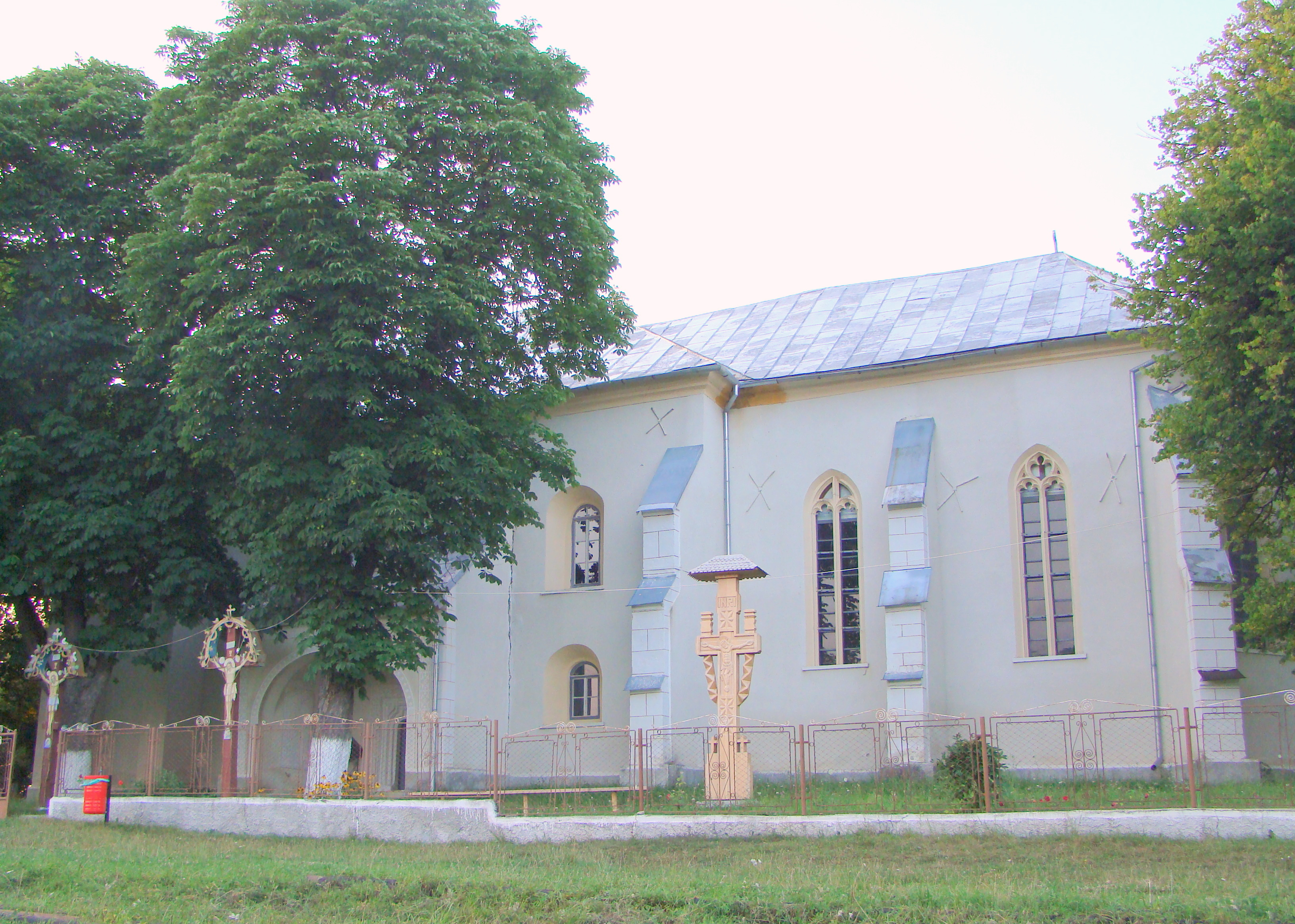 Lutheran church in Sângeorzu Nou, Bistriţa-Năsăud county, Romania